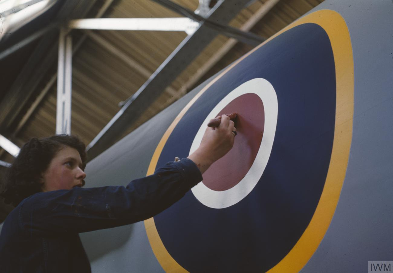 Building Mosquito Aircraft at the De Havilland Factory in Hatfield, Hertfordshire, 1943 Painting the roundel on the side of a Mosquito at the factory.